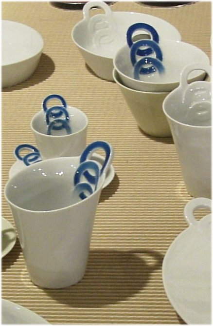 "RONDE" CHAINED RINGS, designed by Arita Eco Porcelainware: The goal is to create a cycle of product, and product re-use, into the future. A winning example of this approach is by a porcelain product company that developed a way to regrind discarded and their broken porcelain products and form it into a new product. To illustrate to the purchaser the nature of the product they incorporated their traditional design motifs blended into the new forms.